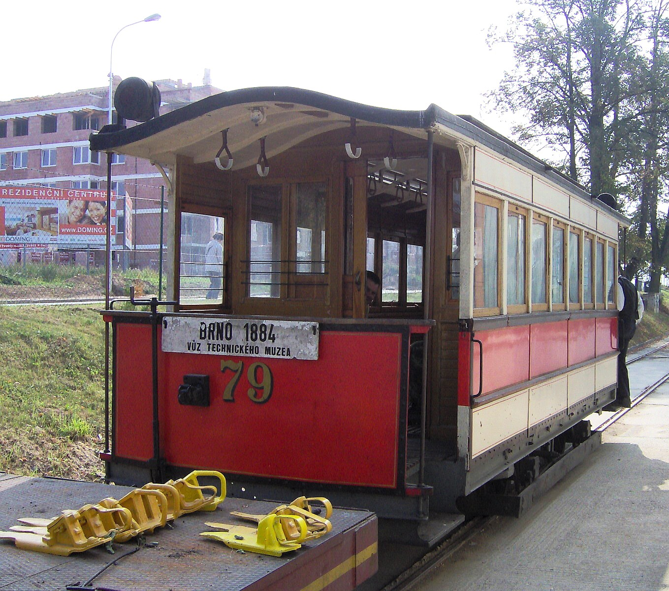 Historical tram No. 79 in Brno, Czech Republic